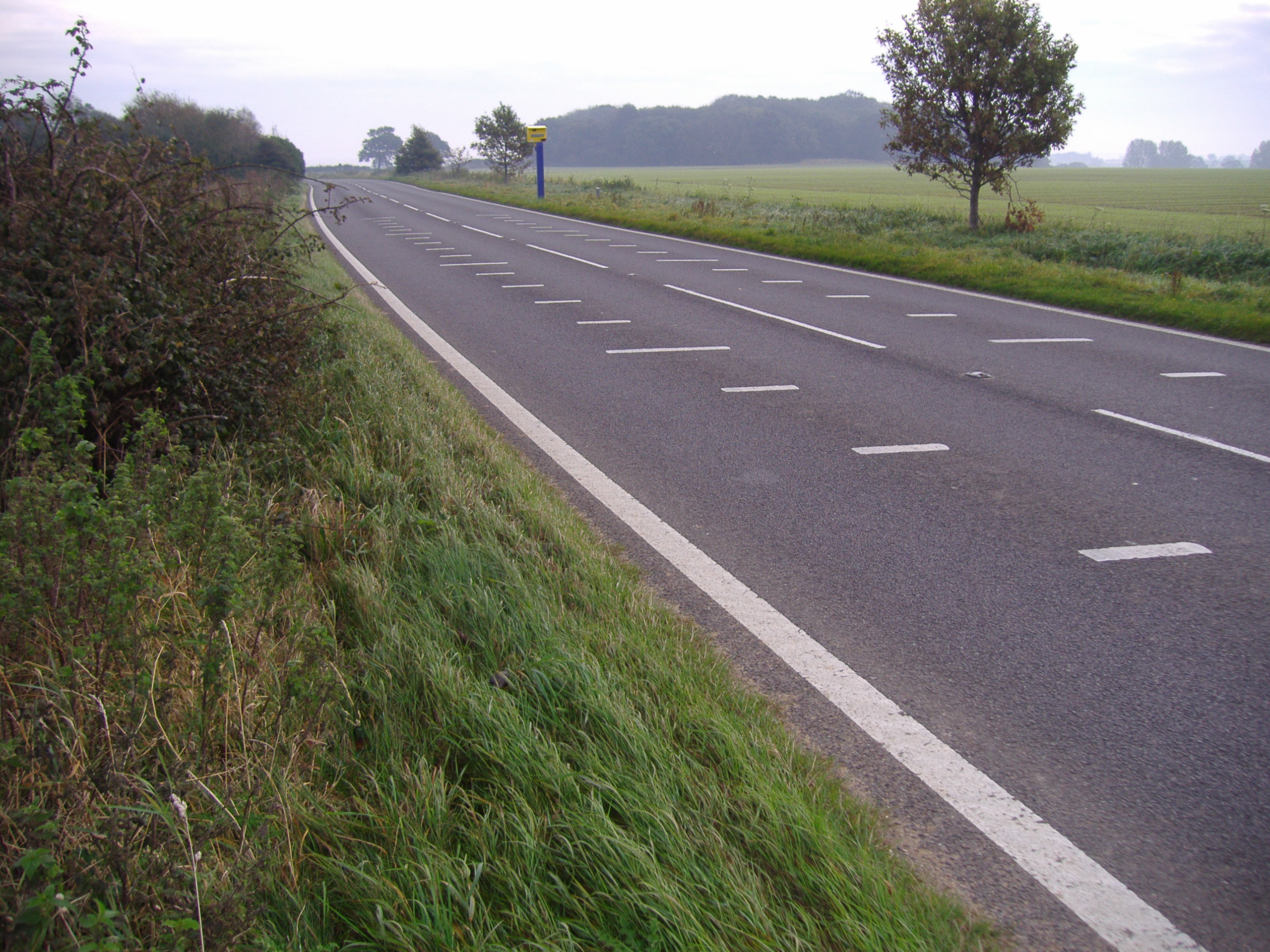 A Digital Photograph of the siting of the Safety Camera At Bale, Norfolk on the A148. Taken on the 22nd October 2007 by stavros1